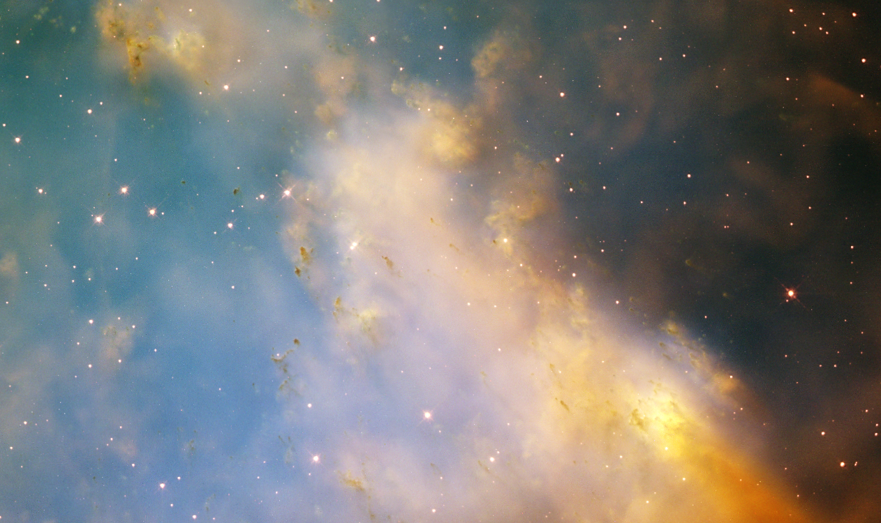 Close up detail of knots in planetary nebula Messier 27